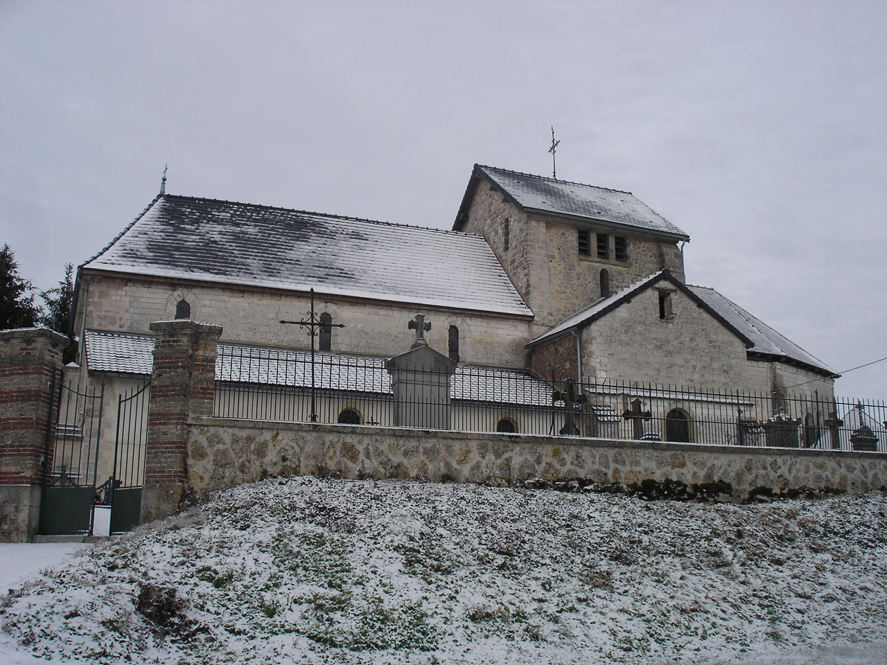 Saint Etienne church, Lenharrée, Marne, France